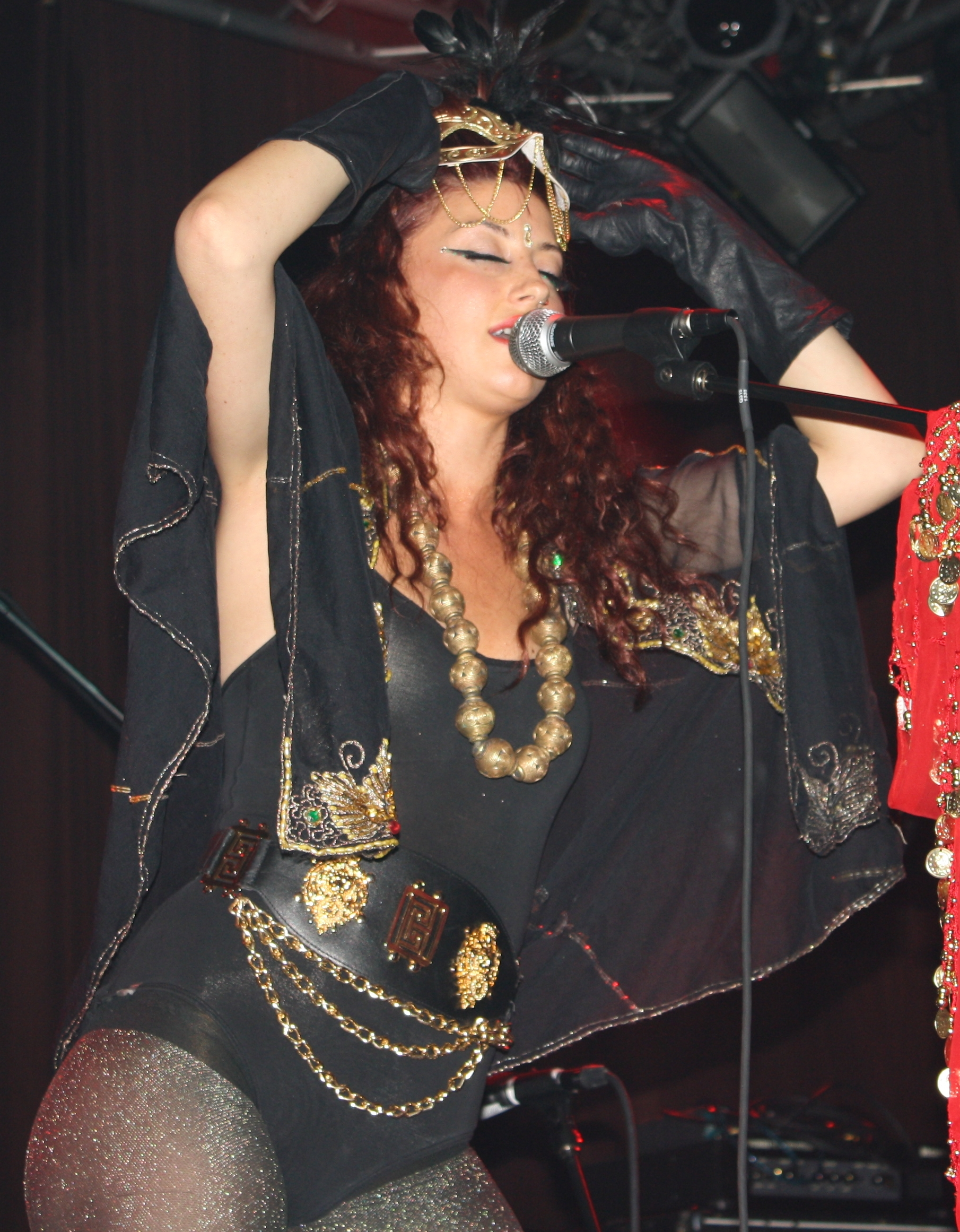 Neon Hitch performs at the Highline Ballroom in New York City.